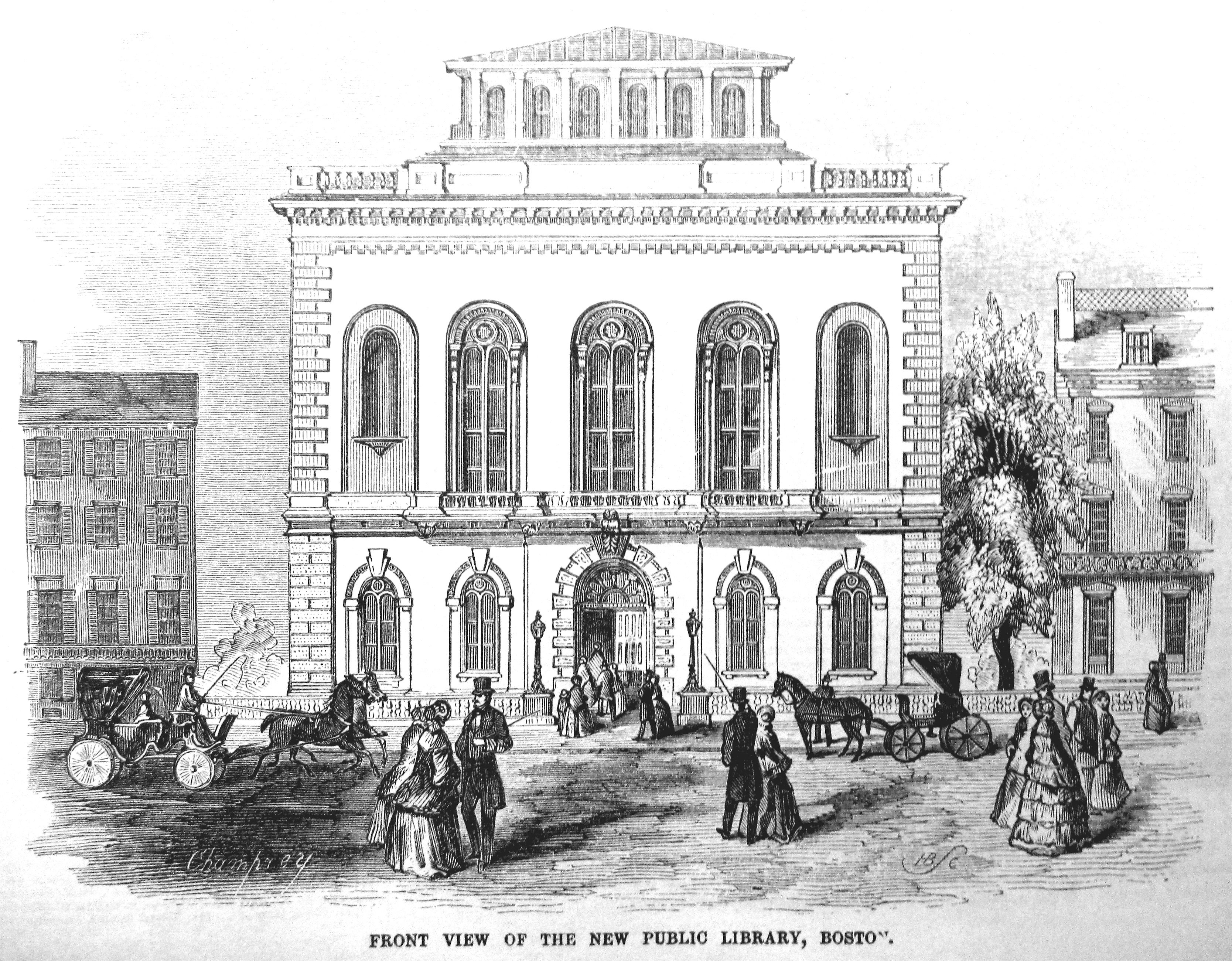 1855 engraving of future Boston Public Library building, Boylston Street